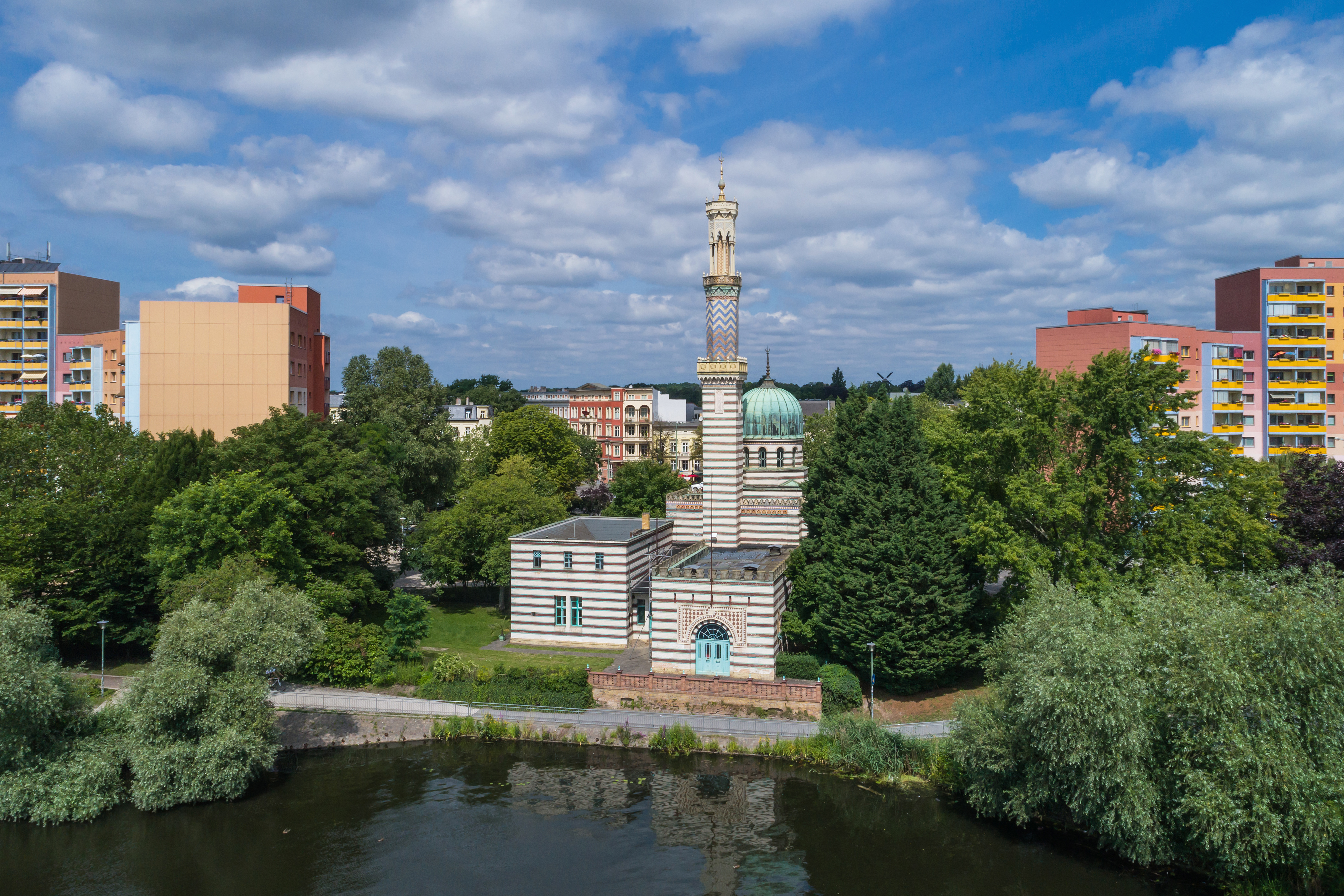 Former Sanssouci Pumping House in Potsdam (Germany)